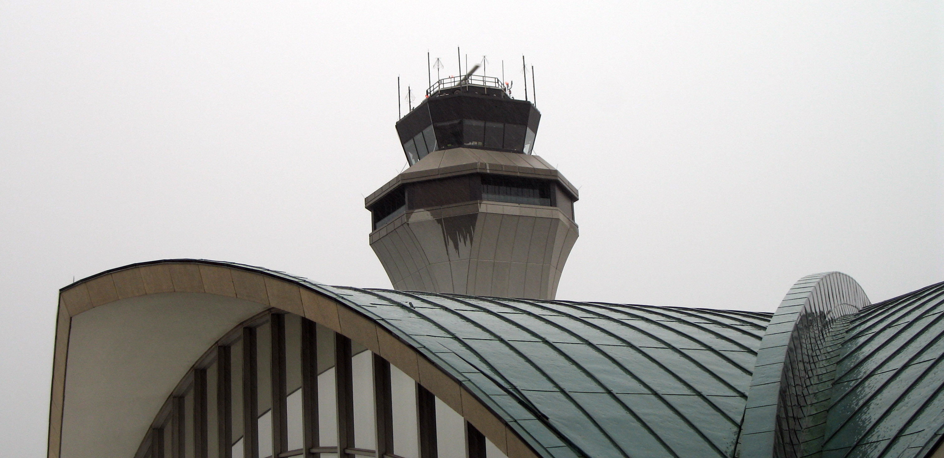 Lambert International Airport Control Tower.